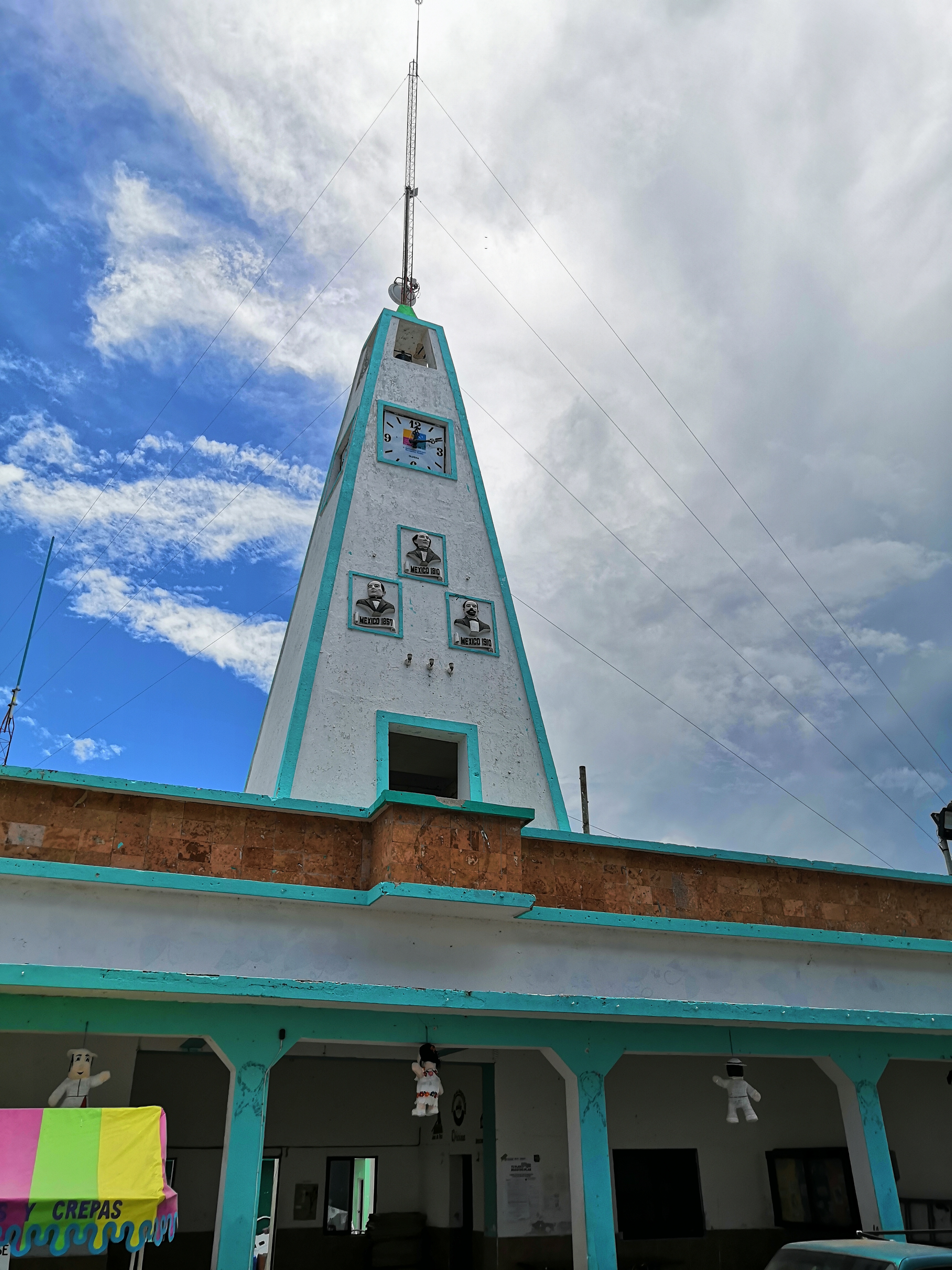 Municipal Palace, heat of City Council of the municipality of Rio Lagartos, state of Yucatan, Mexico.